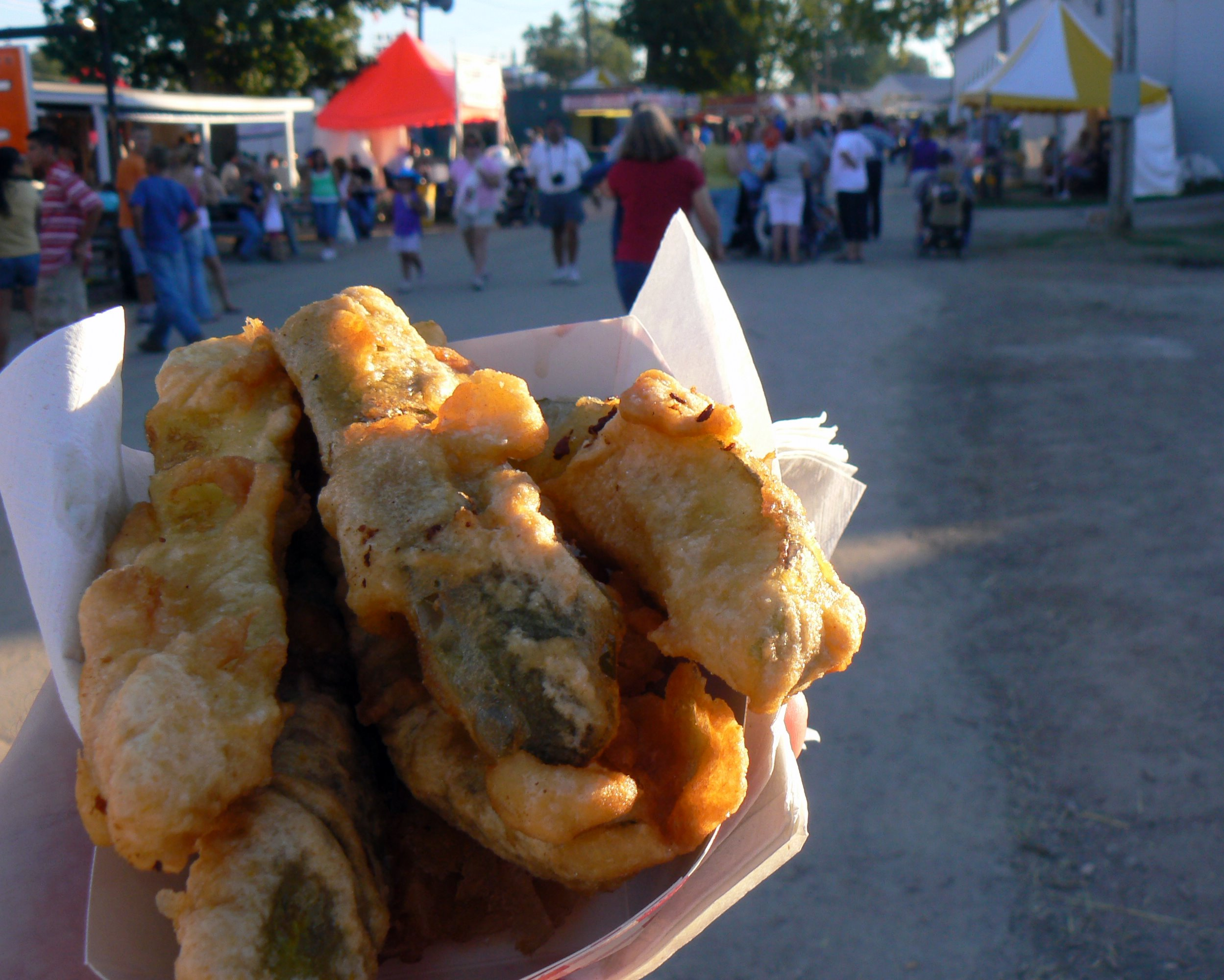 I got some fried dill pickles at the Template:Whichfair, which were extremely delicious.